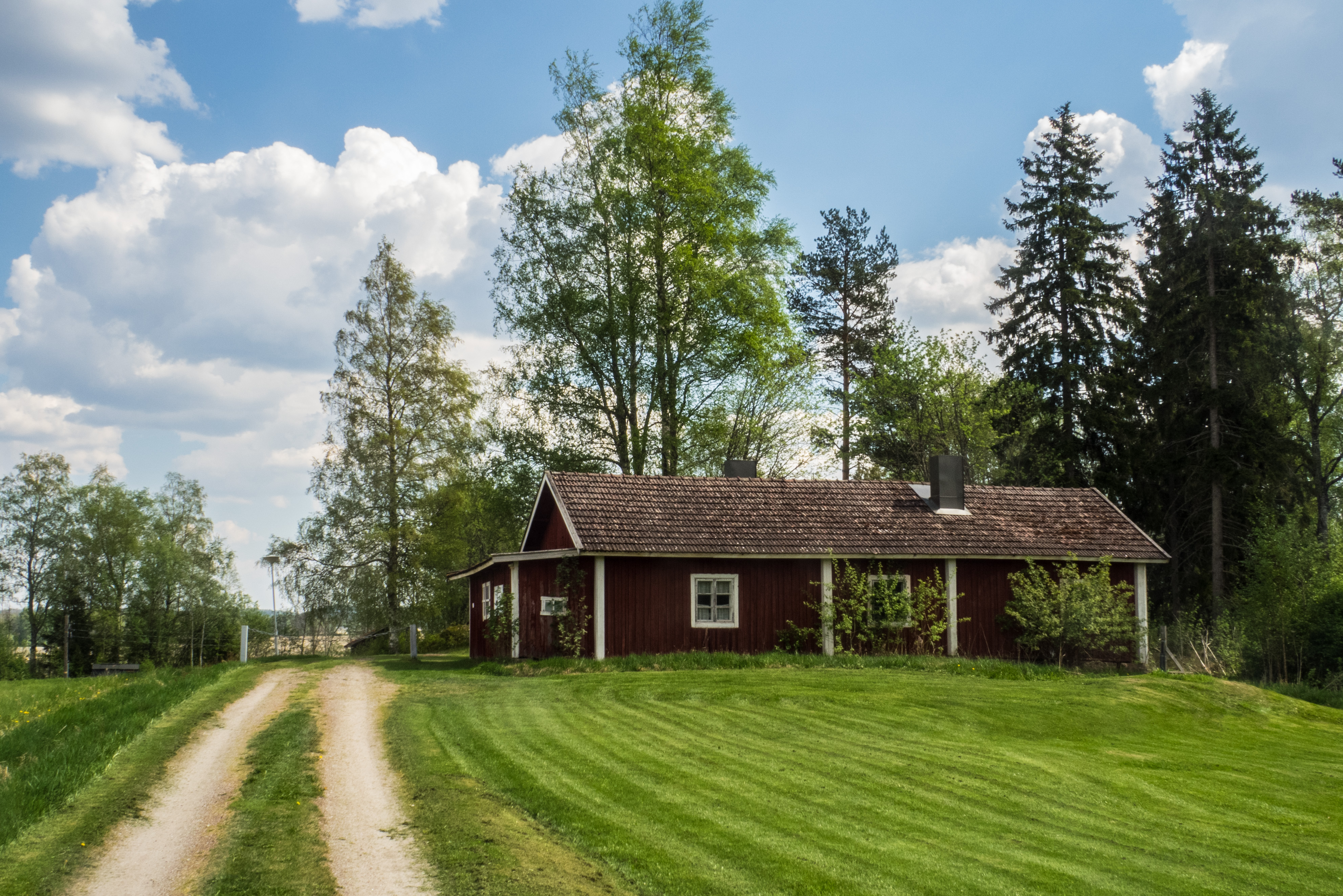 Museum in Kiikala village, Salo, Finland.